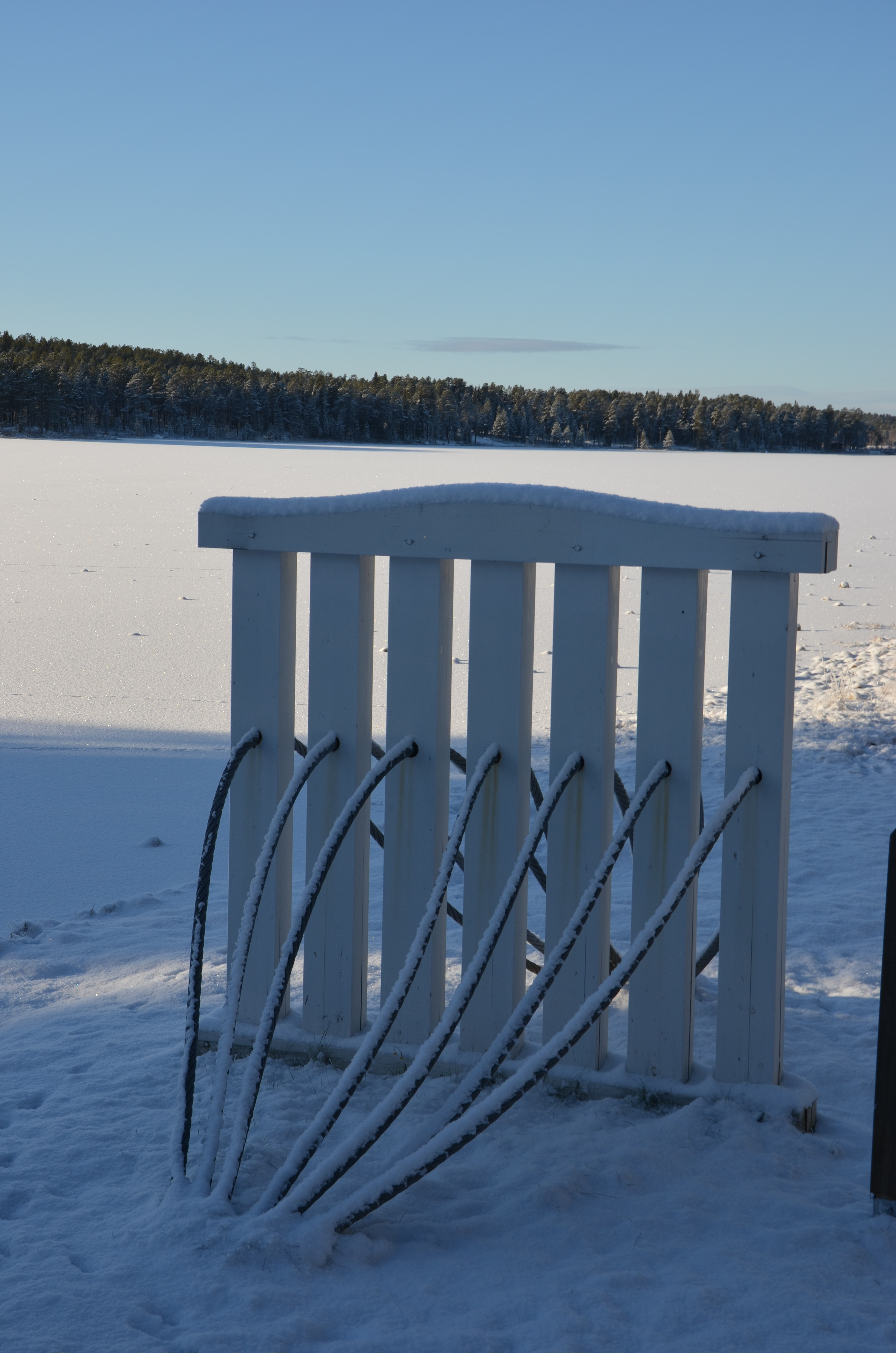 Agneta Andersson Tidsflöde